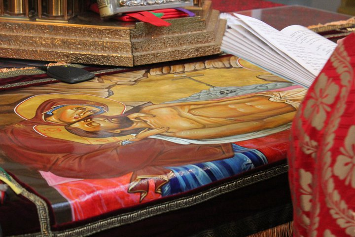 An epitaphos lying on the Altar at a church in Chicago.